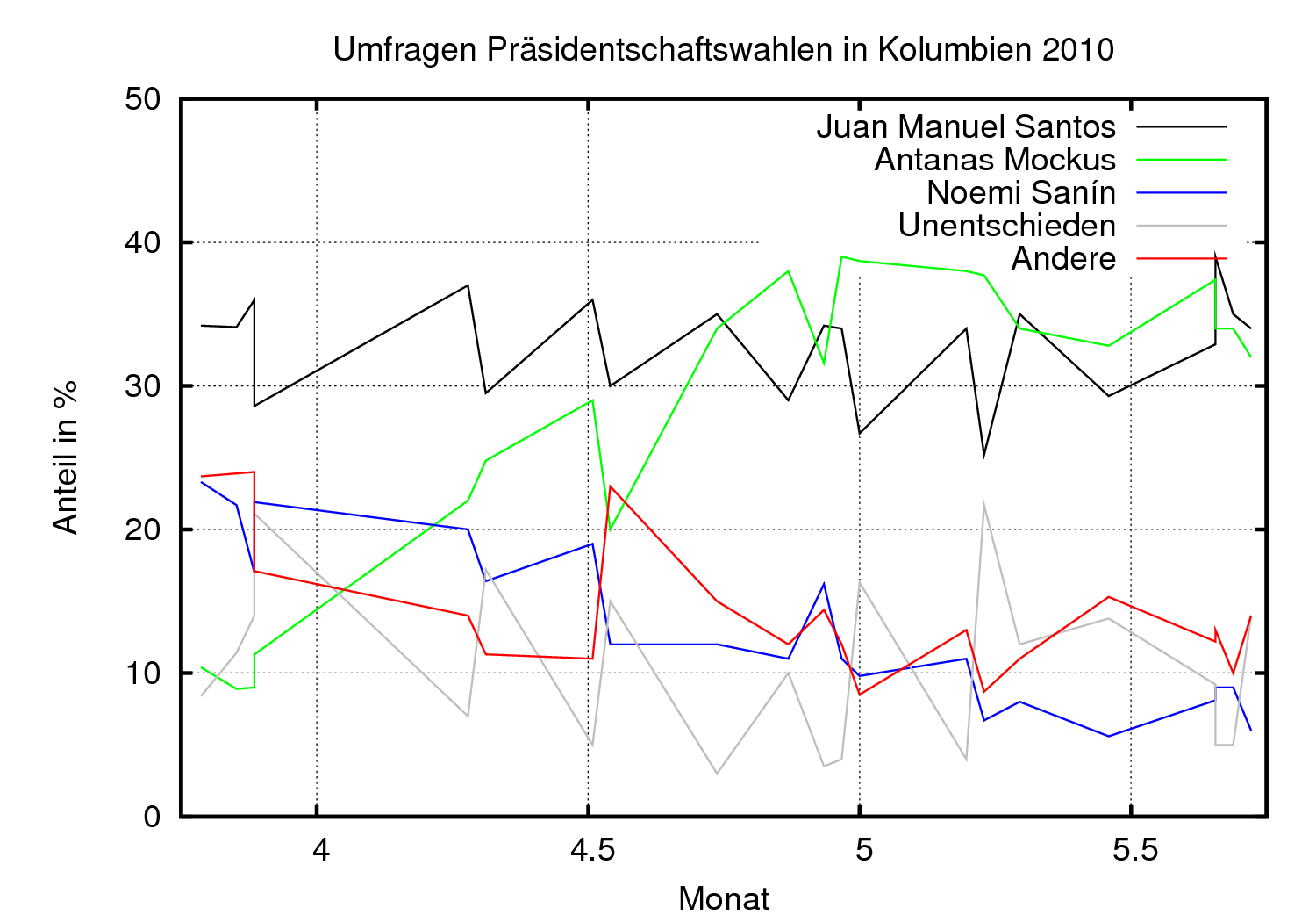 Diagram of opinion polls from different institutions for the Colombian presidential election, 2010.